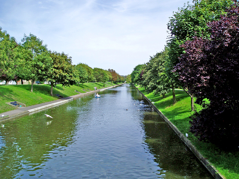 The Royal Military Canal at Hythe from the Ladies' Walk footbridge. Picture taken by me in July 2004. Ian Dunster 20:11, 3 May 2005 (UTC)